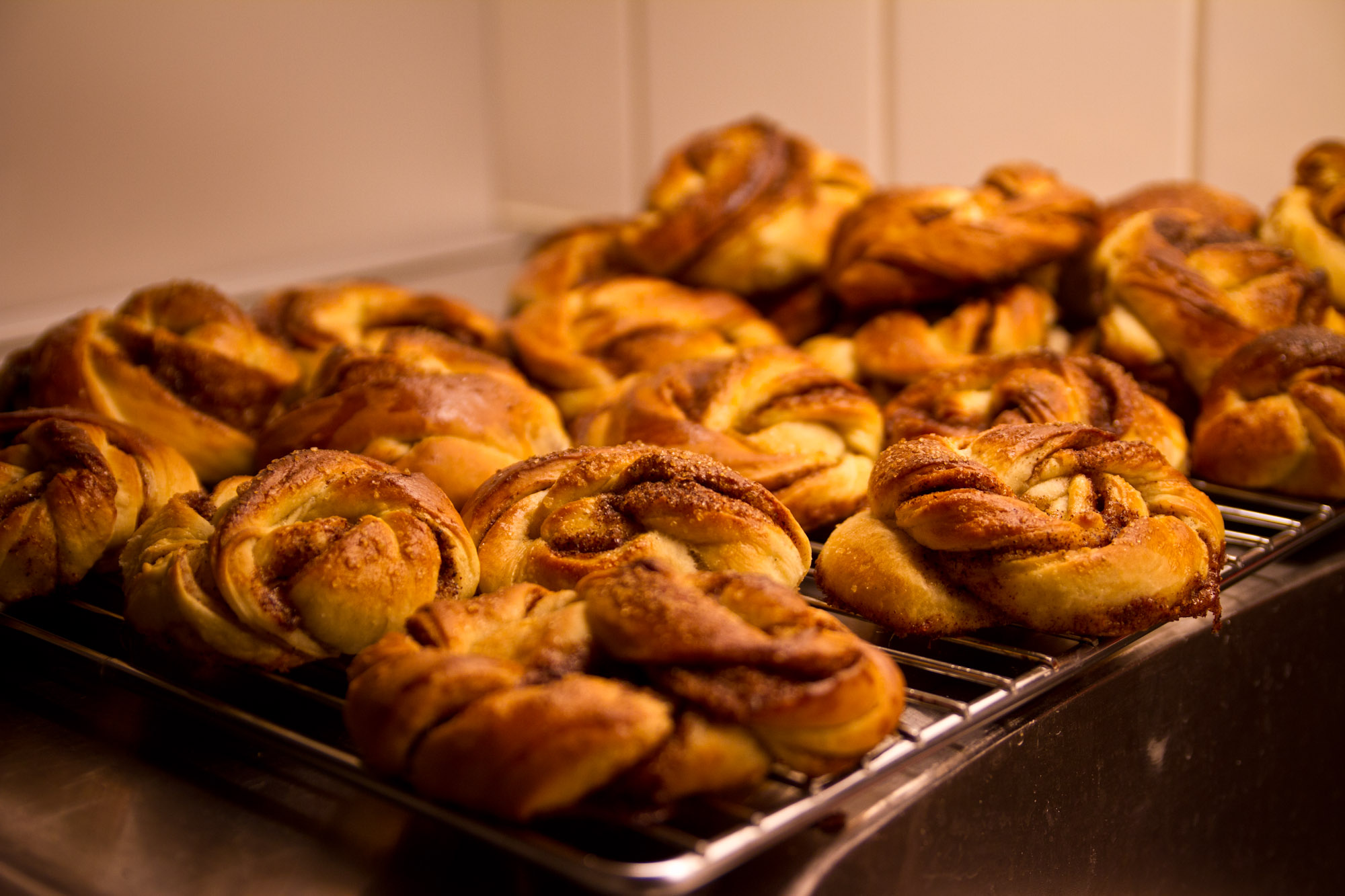 Homemade Kanelbullar in Suède.